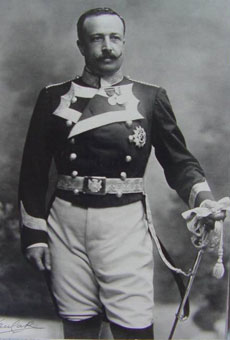 Fotograph of Joaquín Álvarez de Toledo (1865-1915), 19th Duke of Medina-Sidonia, Grandee of Spain. The Duke is wearing the uniform of the Real Maestranza de Valencia.